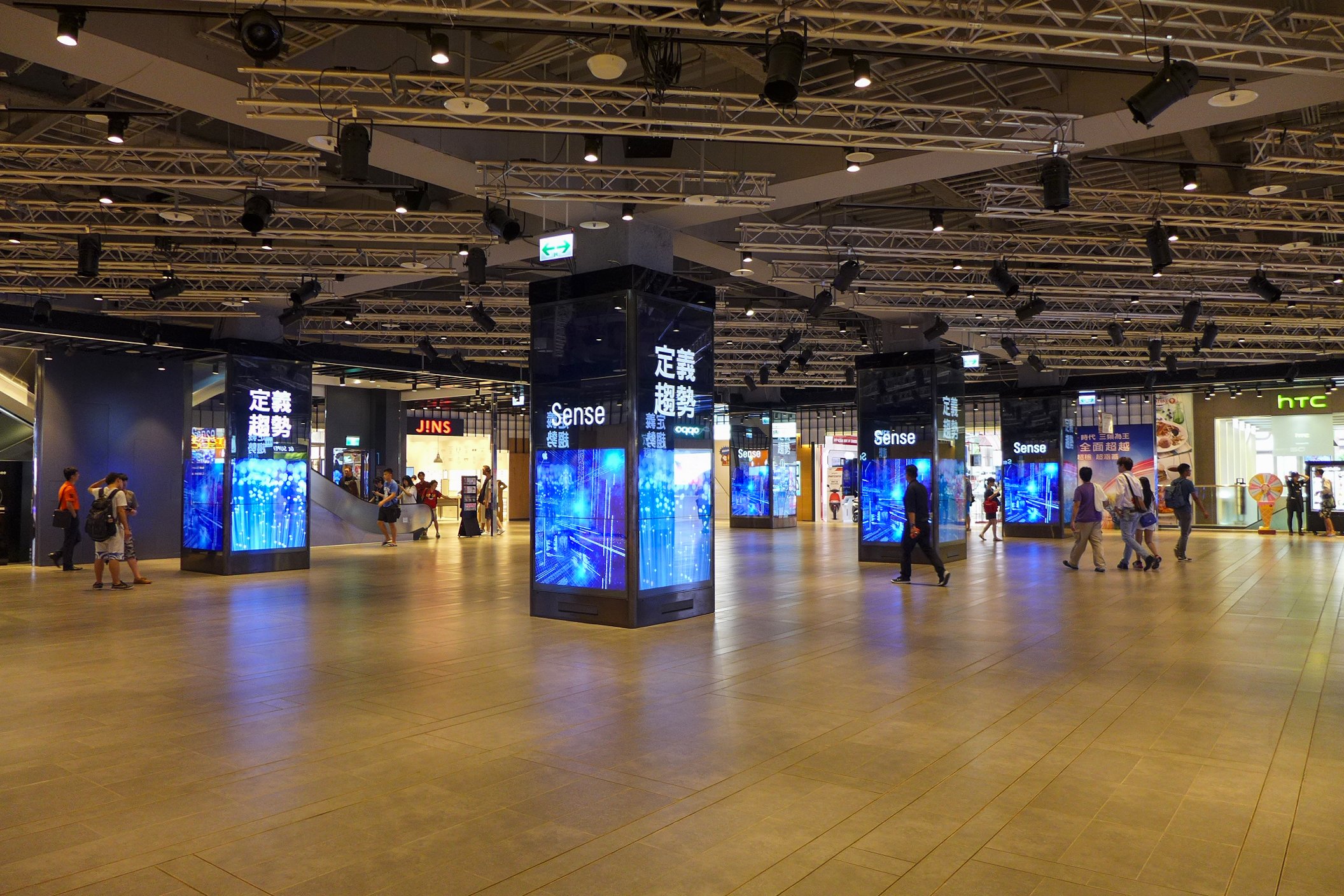 Syntrend Creative Park